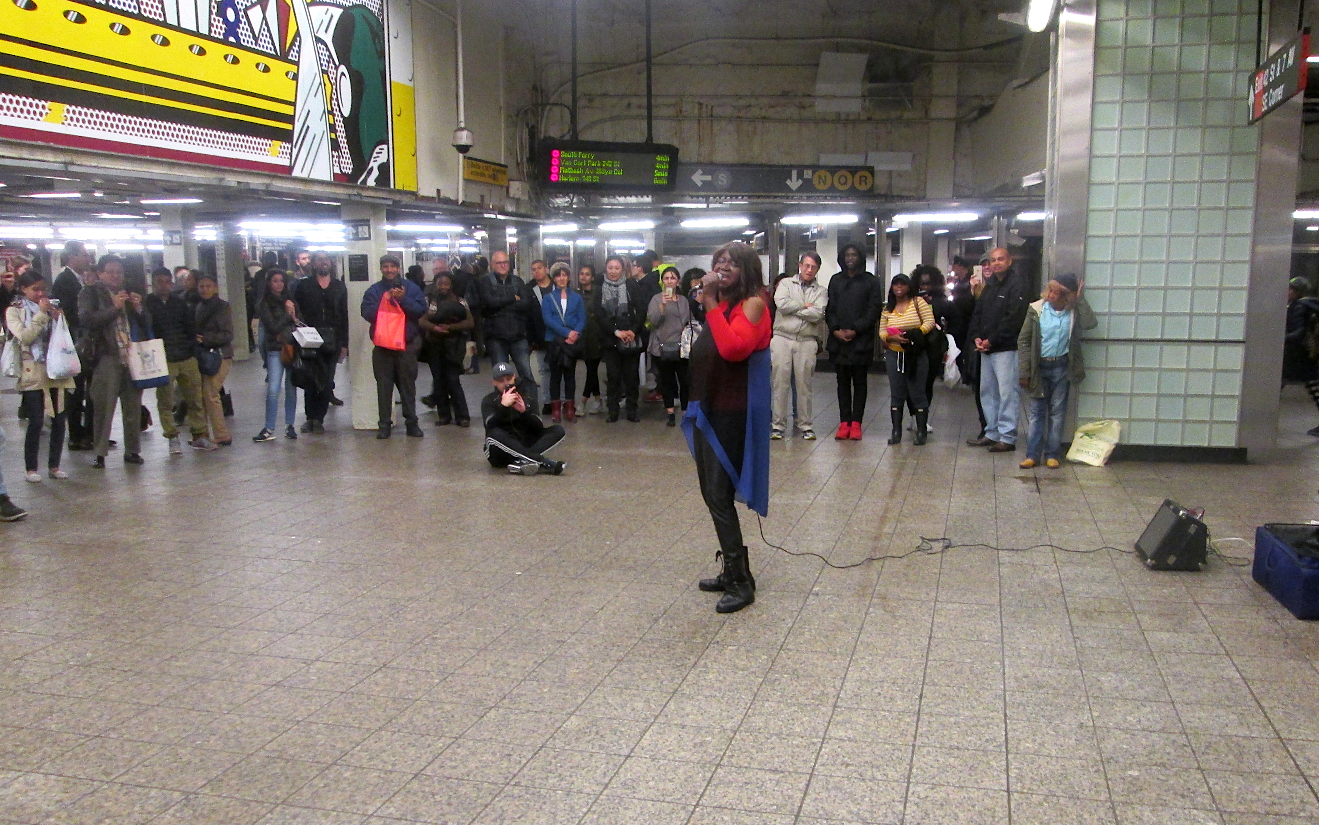 Alice Tan Ridley singing in NYC MTA Times Square Station in front of subway riders